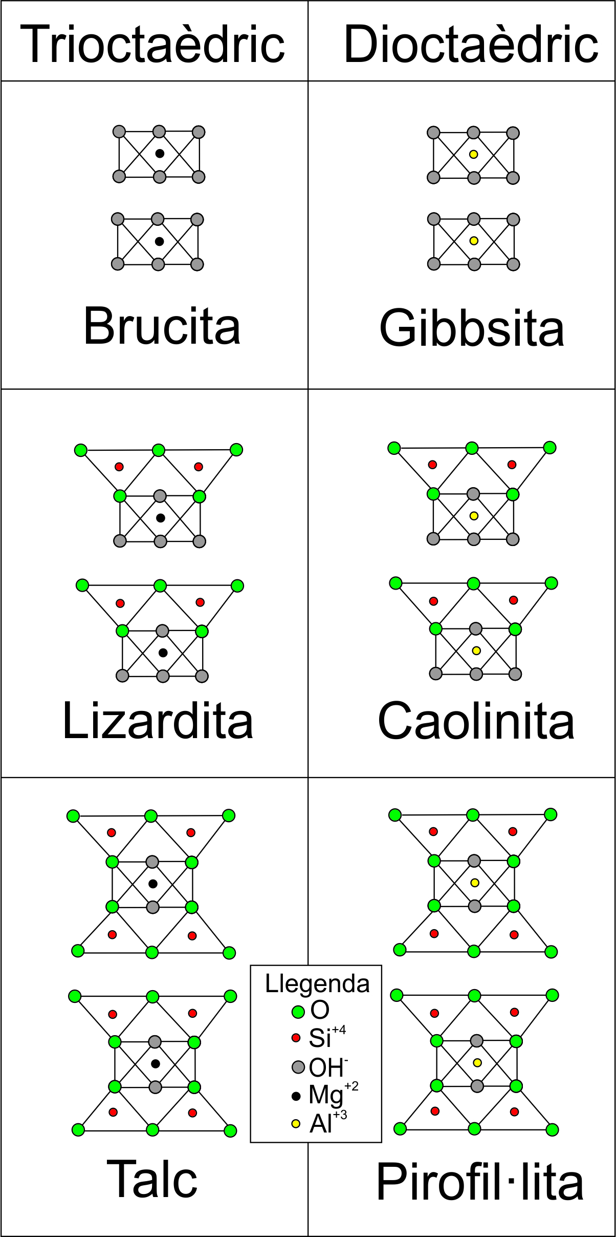 Phyllosilicates structure